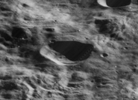 Oblique view of Chalonge, on the far side of the moon, facing west.